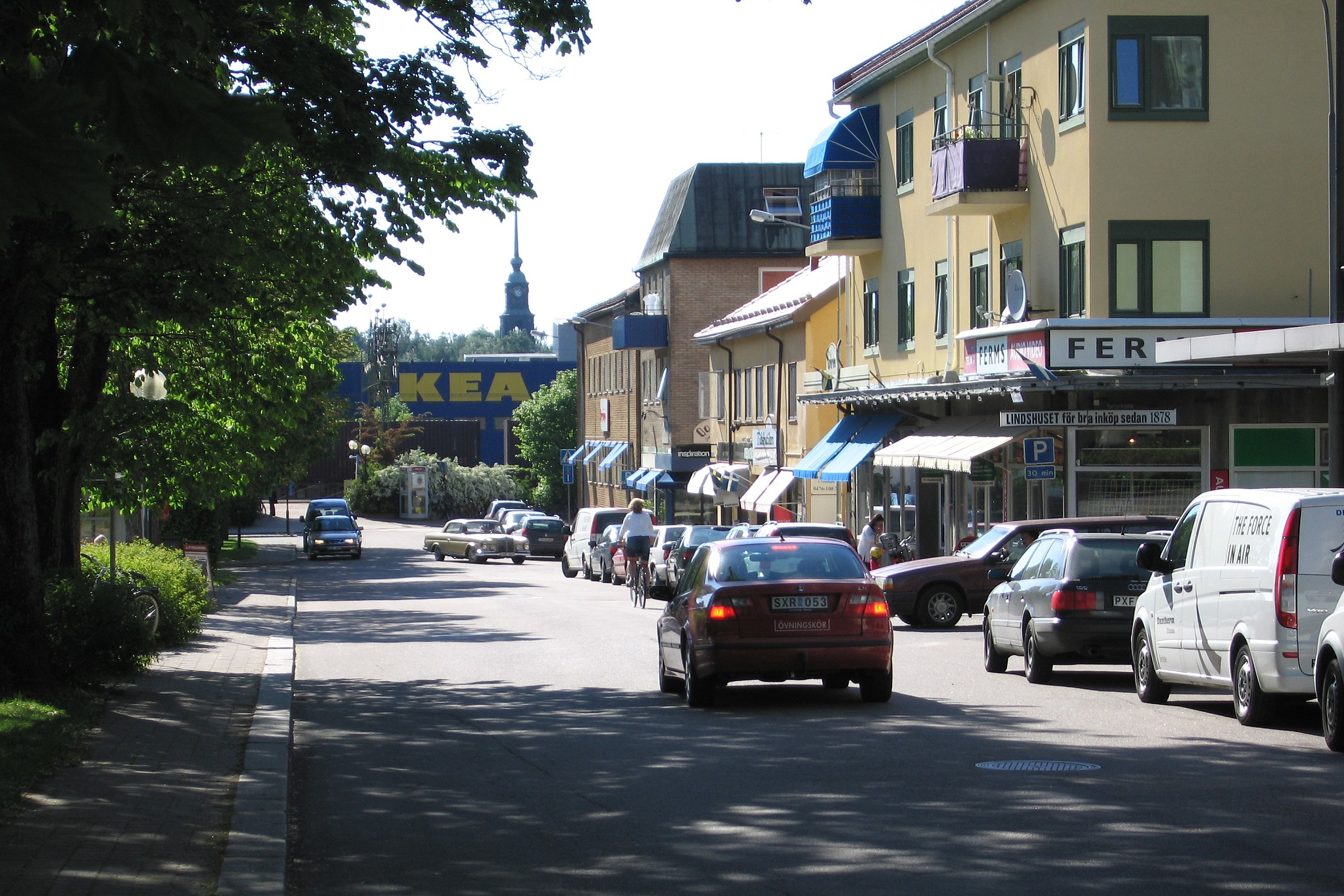 Central Älmhult, Sweden.